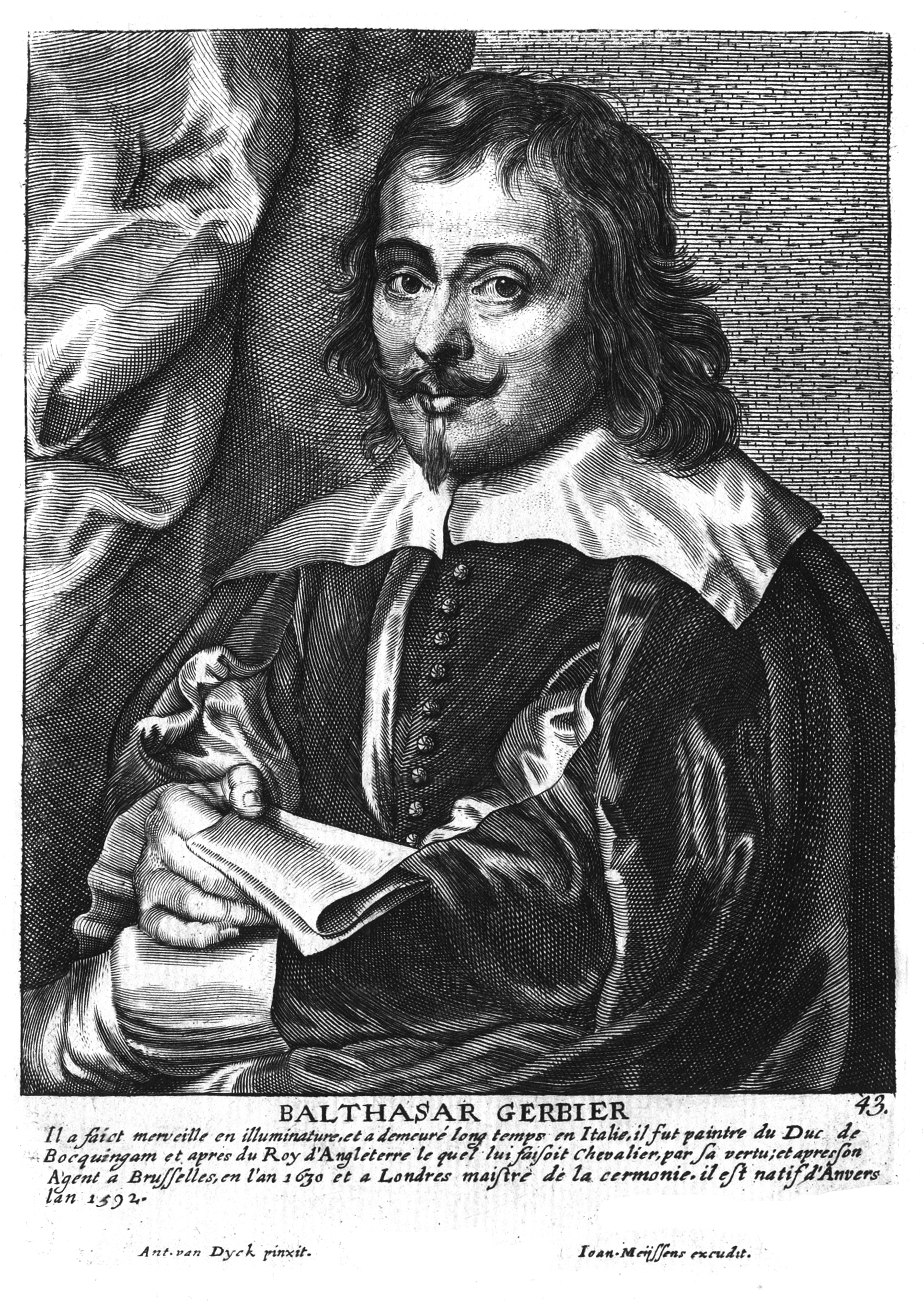 Portrait of Balthazar Gerbier in Cornelis de Bie's Gulden Cabinet.